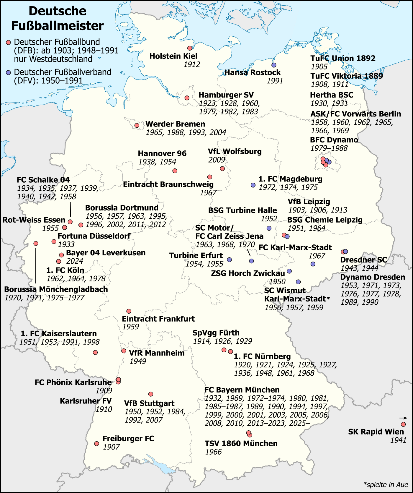 Map of German Soccer Champions, starting 1903